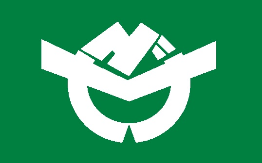 Flag of Yuza Yamagata